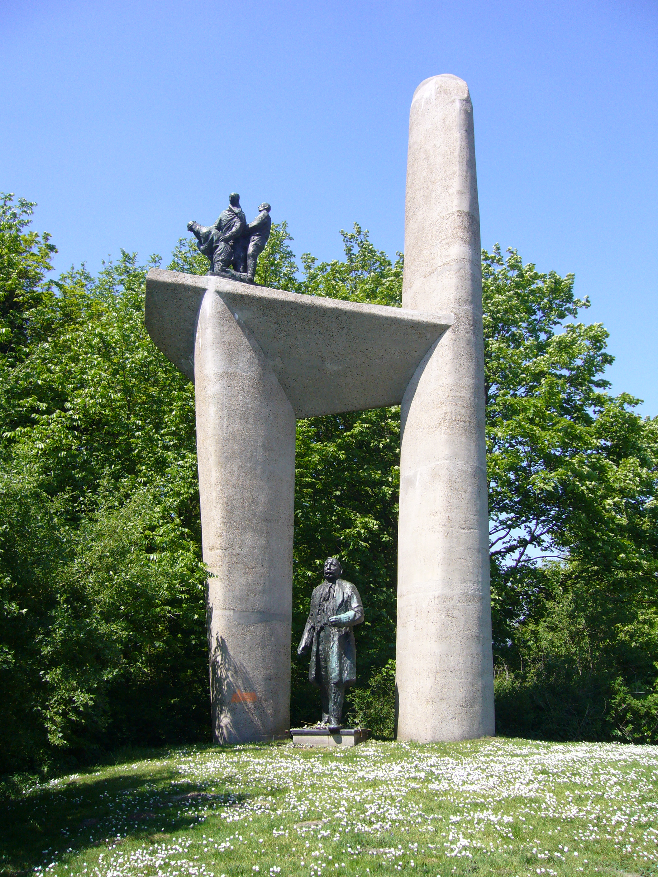 Troelstra Monument (1953) by Piet Esser in The Hague/The Netherlands